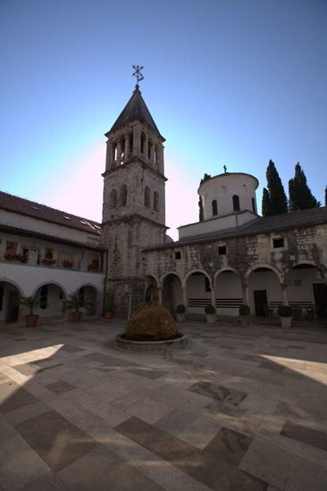 Serbian Orthodox monastery Krka